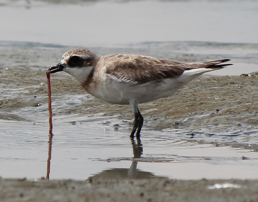 Charadrius mongolus stegmanni (Lesser Sand Plover), eating ragworm in Fujimae-higata